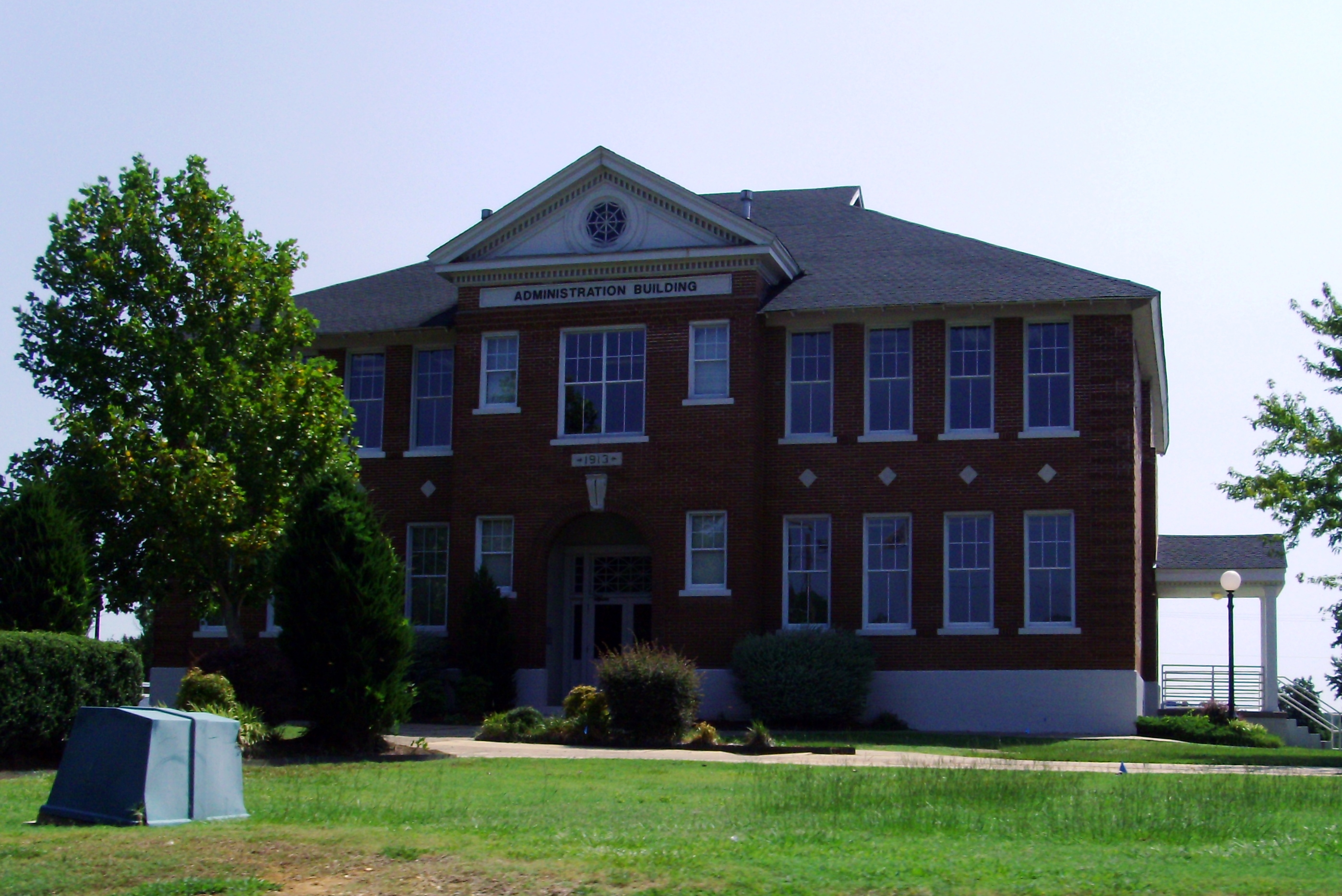 Old School Administration Building in Sheridan, Arkansas on US 167.